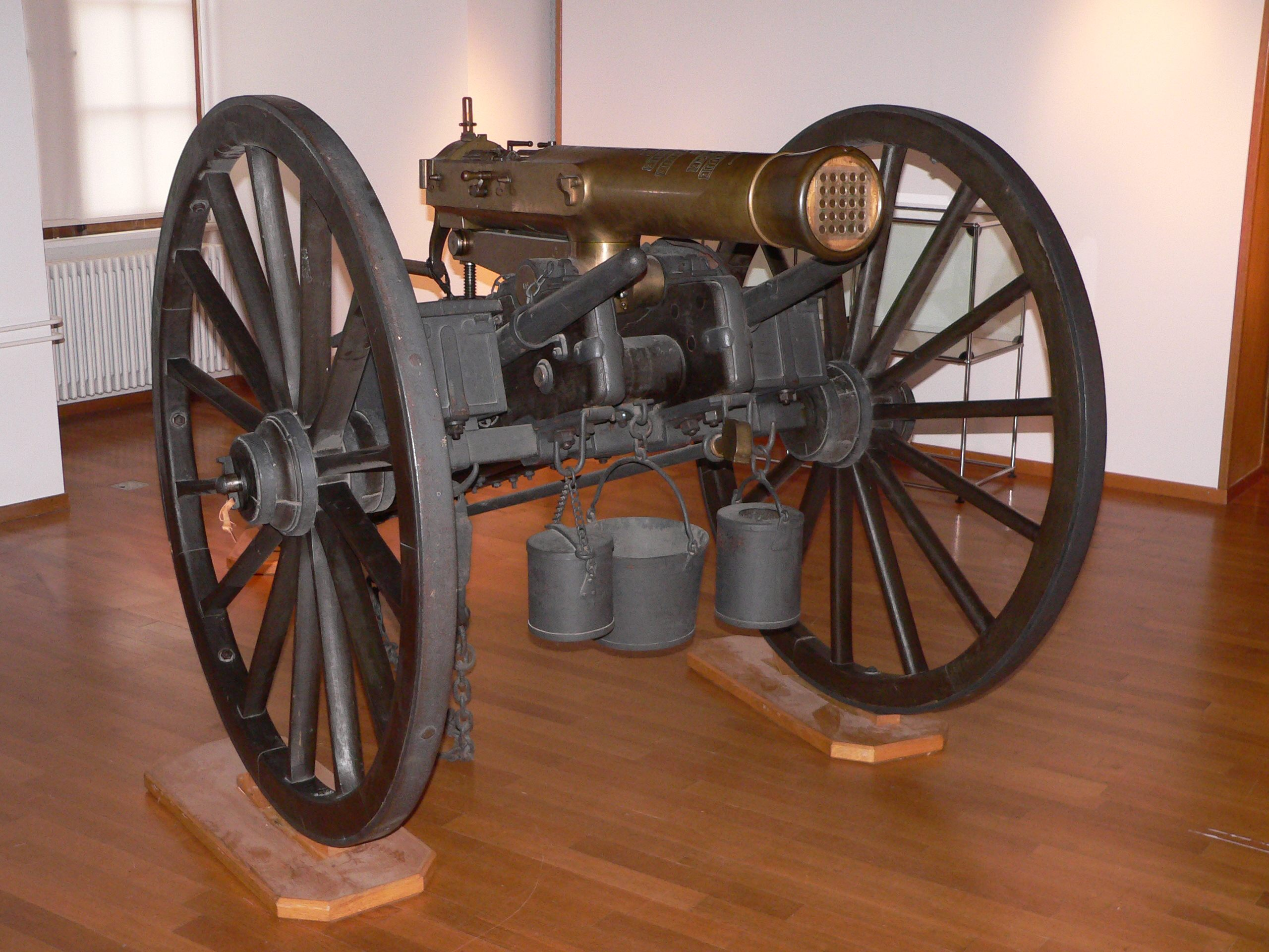 Machine gun, museum of Morges castel, Switzerland